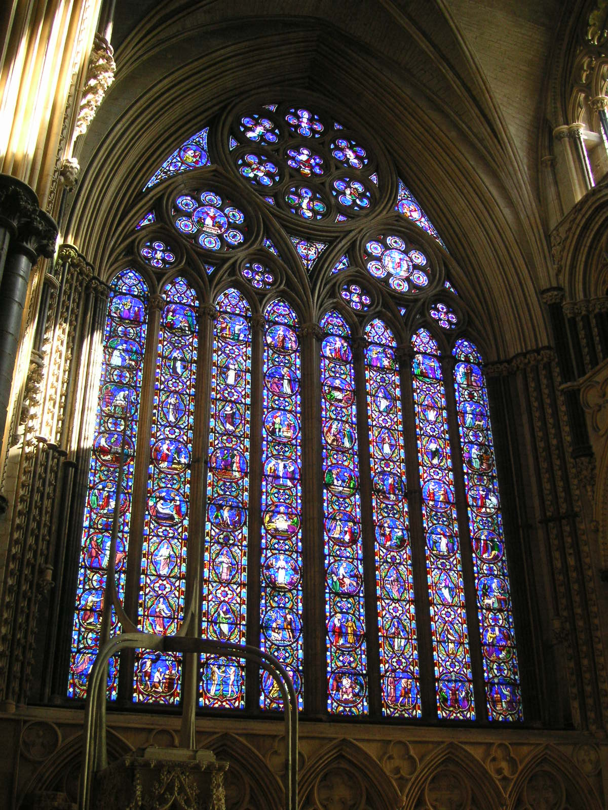 England- Lincoln Cathedral, East window, 1256-80. architect- Simon Thirsk; glass- Ward and Nixon, 1855.